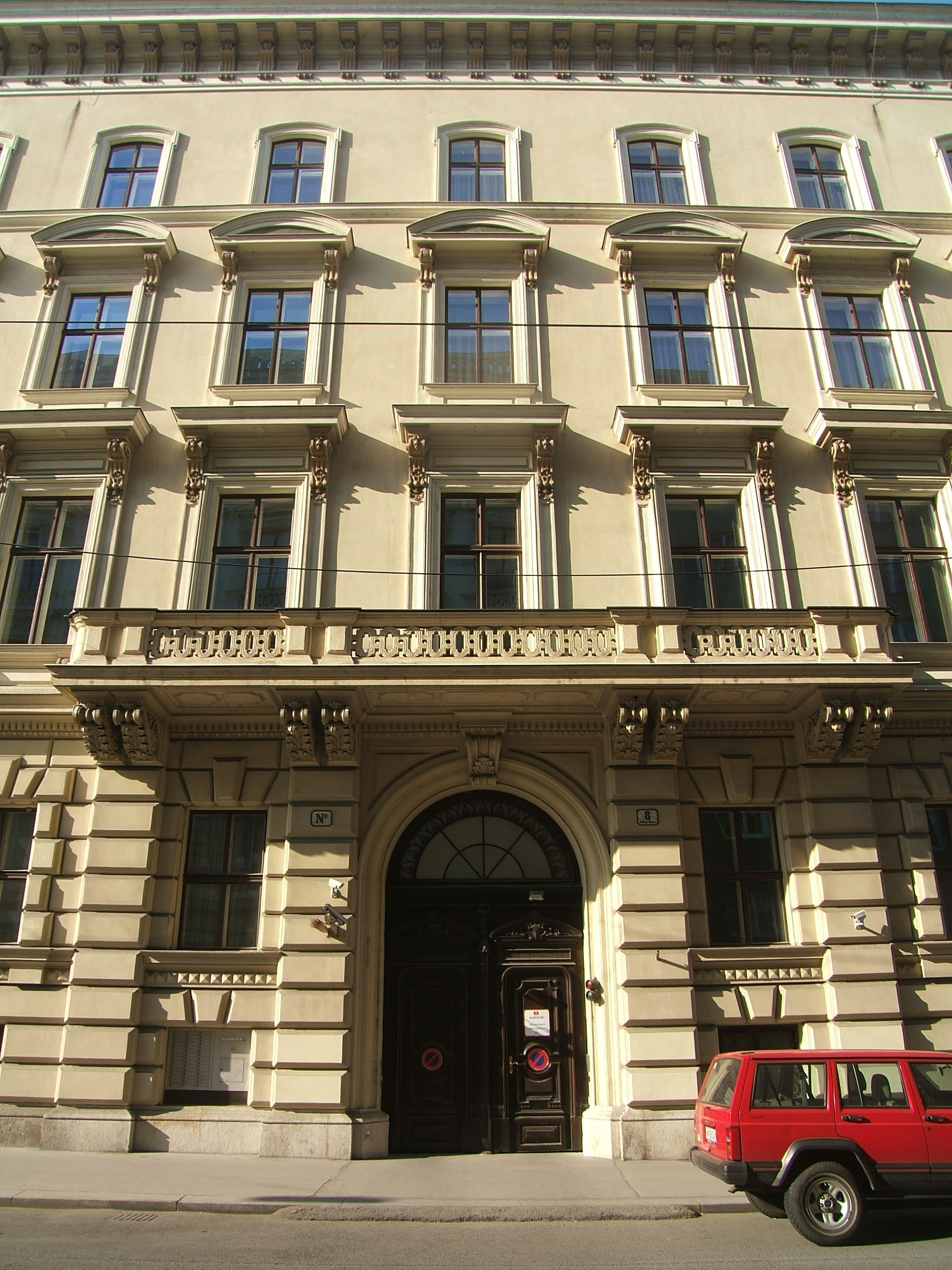 Palace Colloredo-Mansfeld in Vienna 1st district view from Zedlitzgasse